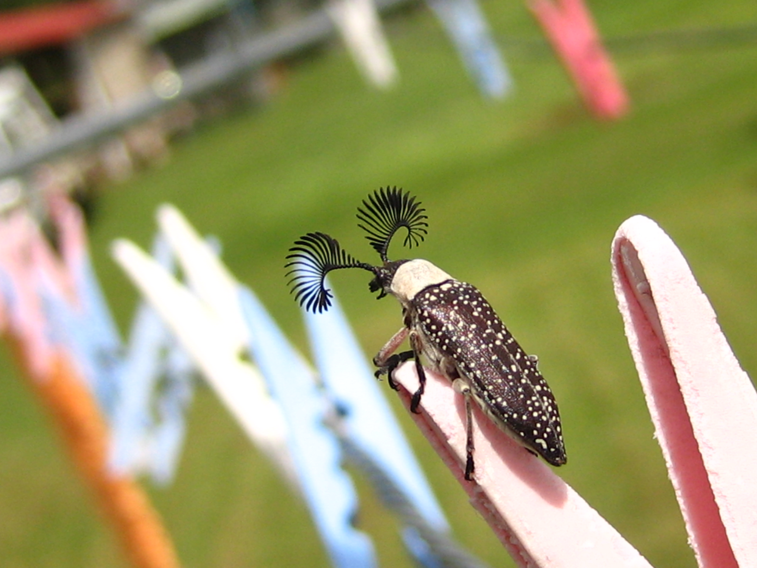 Kingdom: Animalia Phylum: Arthropoda Class: Insecta Order: Coleoptera Family: Rhipiceridae (feather or fan-horned beetles) Genus: Rhipicera